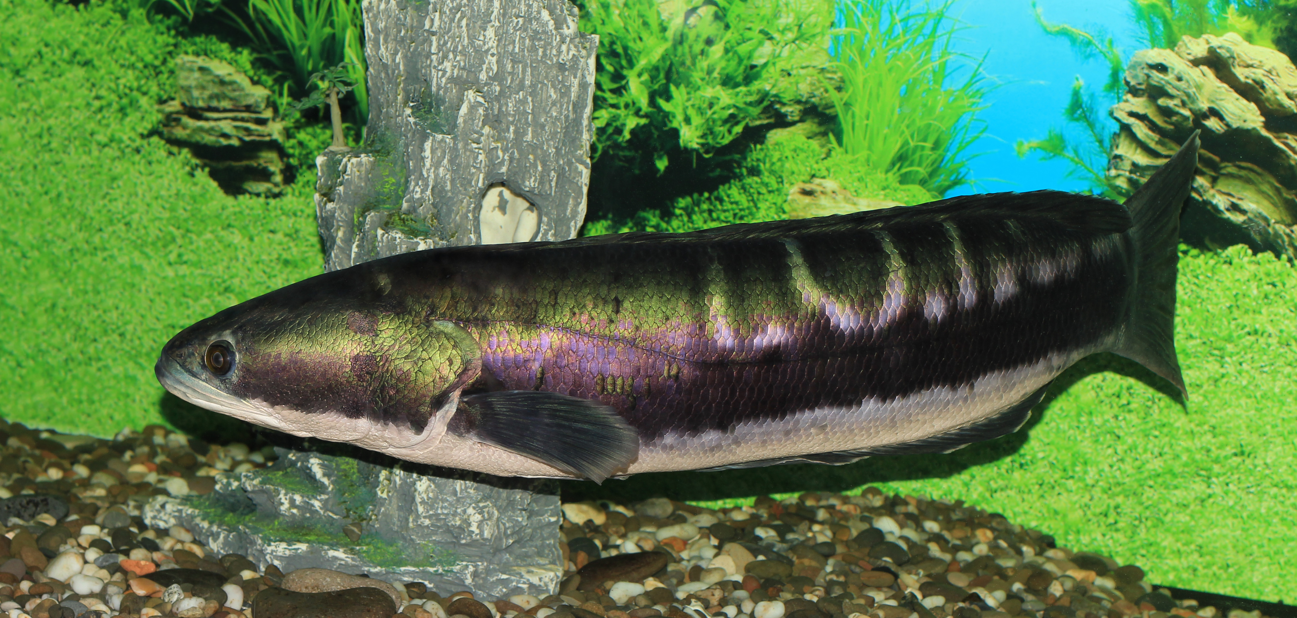 Giant snakehead (Channa micropeltes)